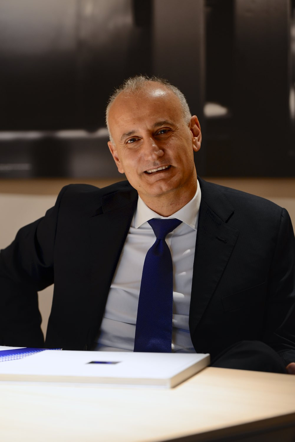 Renato Ravanelli Chief Executive Officer of Fondi Italiani per le Infrastrutture SGR